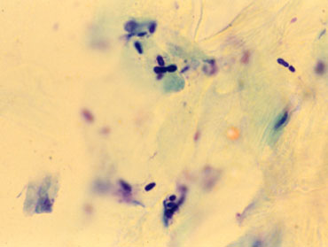 tape cytology from dog with Malassezia dermatitis; Dif-Quik stain